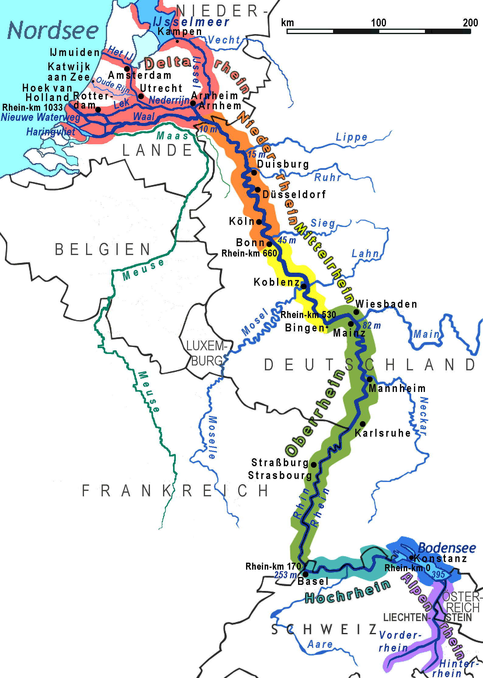 sections and major affluents of river Rhine, relaunch: Delta corrected, most names with clearer letters